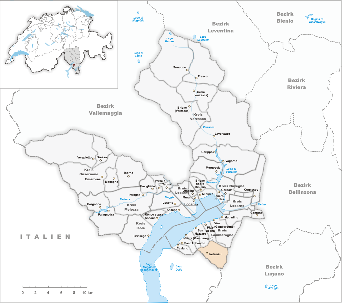 Municipality Indemini